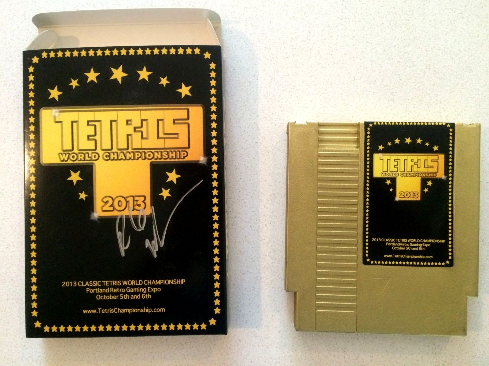 The 2013 CTWC Cartridge and Box